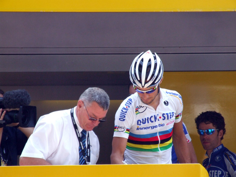 Picture taken by Stitchface in Tarbes.